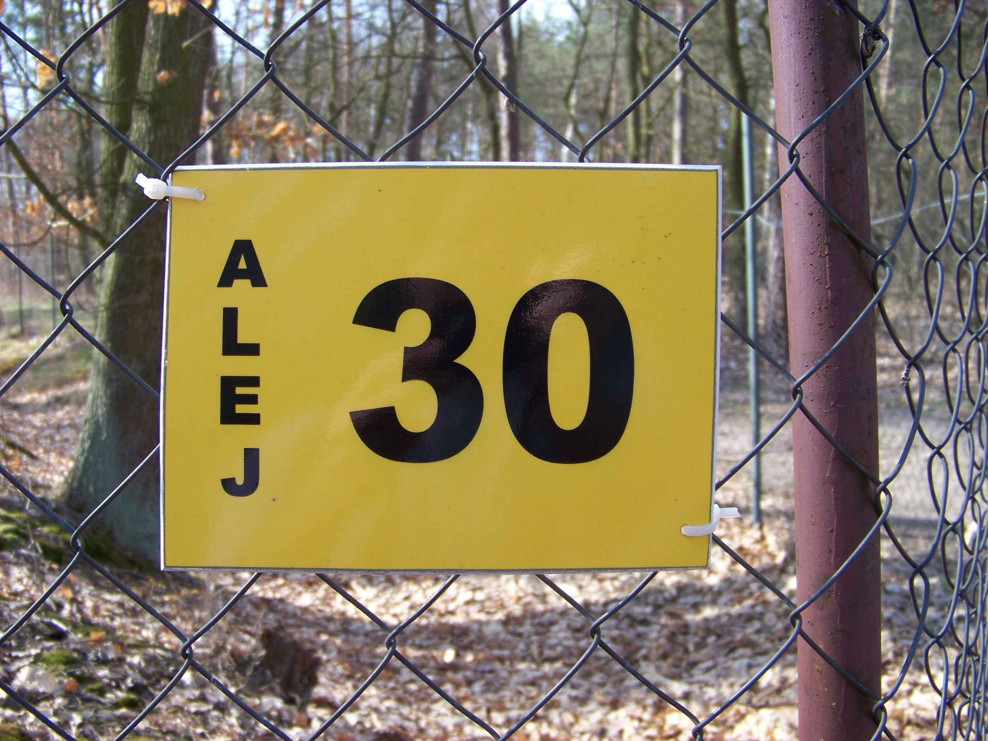 Hradištko-Kersko, Nymburk District, Central Bohemian Region, the Czech Republic. A sign of 30th avenue. - Google Maps - Google Earth